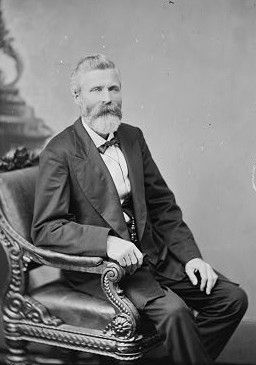 William Ferguson Slemons (1830 - 1918), U.S. Representative from Arkansas